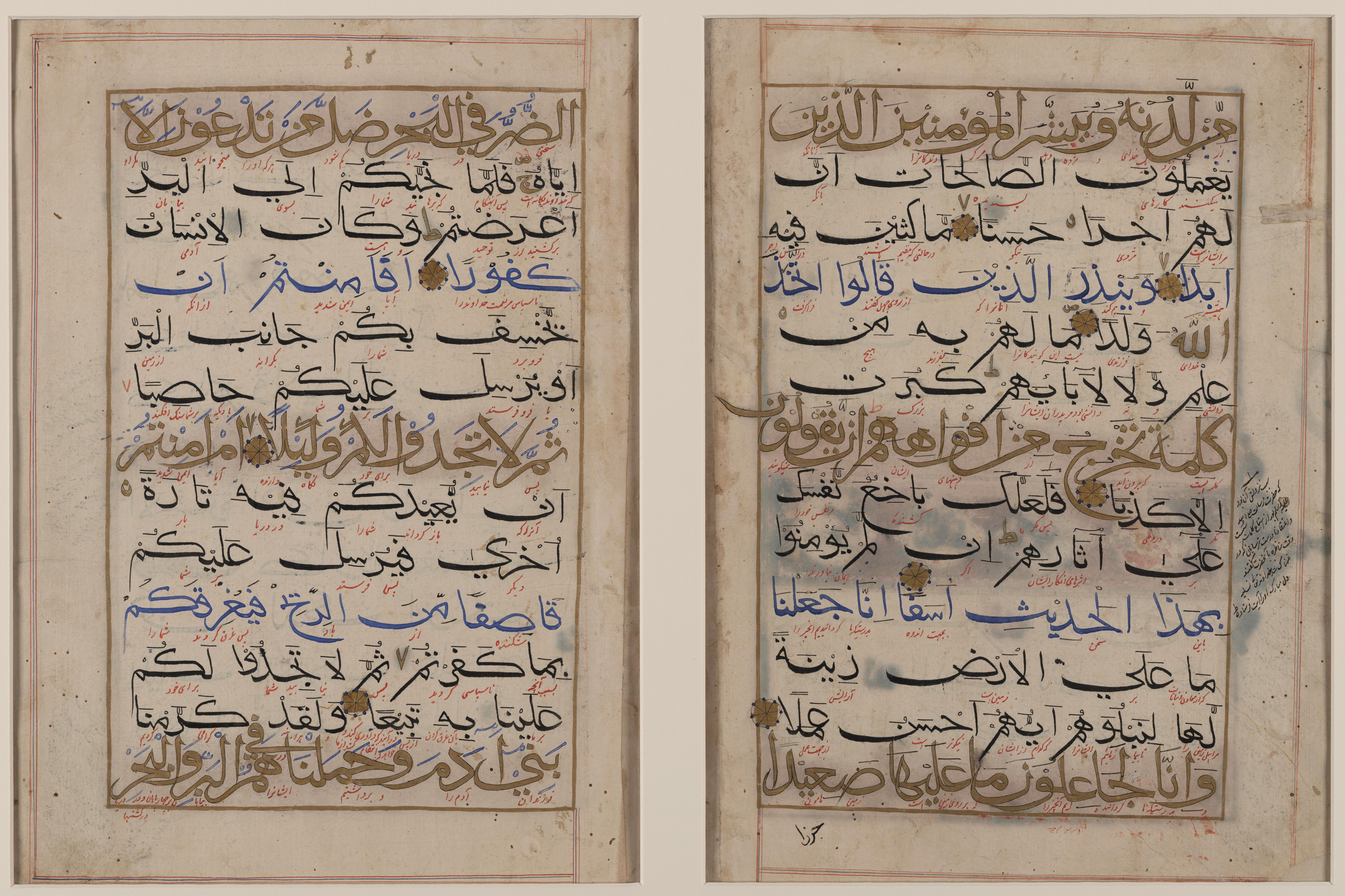 This folio contains, on the right side, verses 2-8 of Surat al-Kahf (The Cave), and, on the left side, verses 67-70 of Chapter 17 of the Qur'an, entitled Surat Bani Isra'il (The Children of Israel), also known as Surat al-Isra' (The Night Journey). The borders of the text include a commentary in Persian on a particular verse of the Qur'an. The fragment is written in a script known as bihari, a variant of naskh (cursive) typical of northern India after Timur's conquest and prior to the establishment of the Mughal Dynasty (ca. 1400-1525 A.D.). Bihari script is reconizable by its emphasis on the sublinear elements of the Arabic letter forms, thickened at their centers and chiseled like swords at their ends (James 1992b, 102). The term bihari derives from the province Bihar in eastern India, but it seems like its alternative spelling bahari describes the size (bahar) of the paper used for writing Qur'ans.